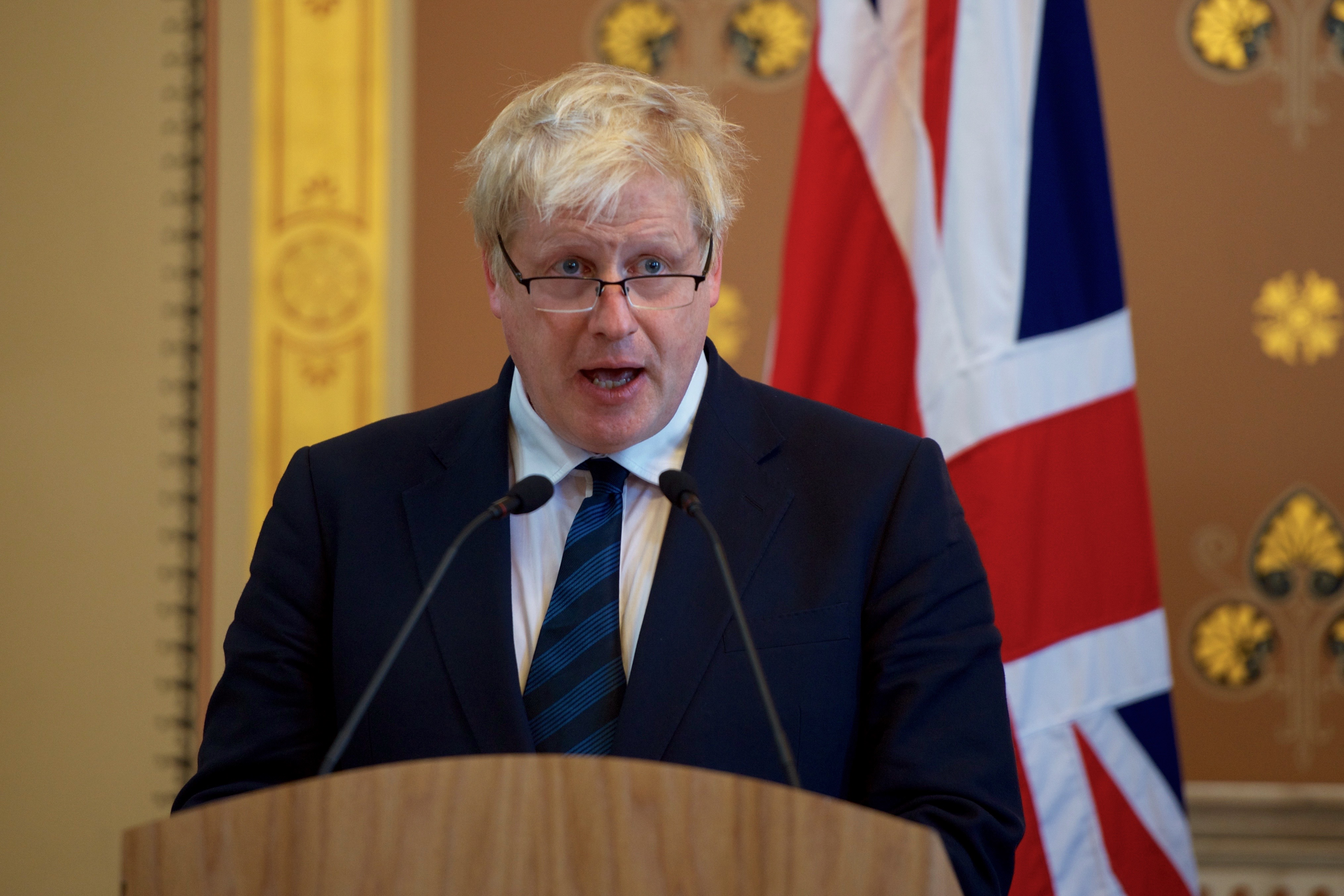 Newly installed British Foreign Secretary Boris Johnson addresses reporters in the gilded Lacarno Media Room in the Foreign & Commonwealth Office in London U.K., on July 19, 2016, during a news conference with U.S. Secretary of State John Kerry following their first bilateral meeting. [State Department Photo/ Public Domain]